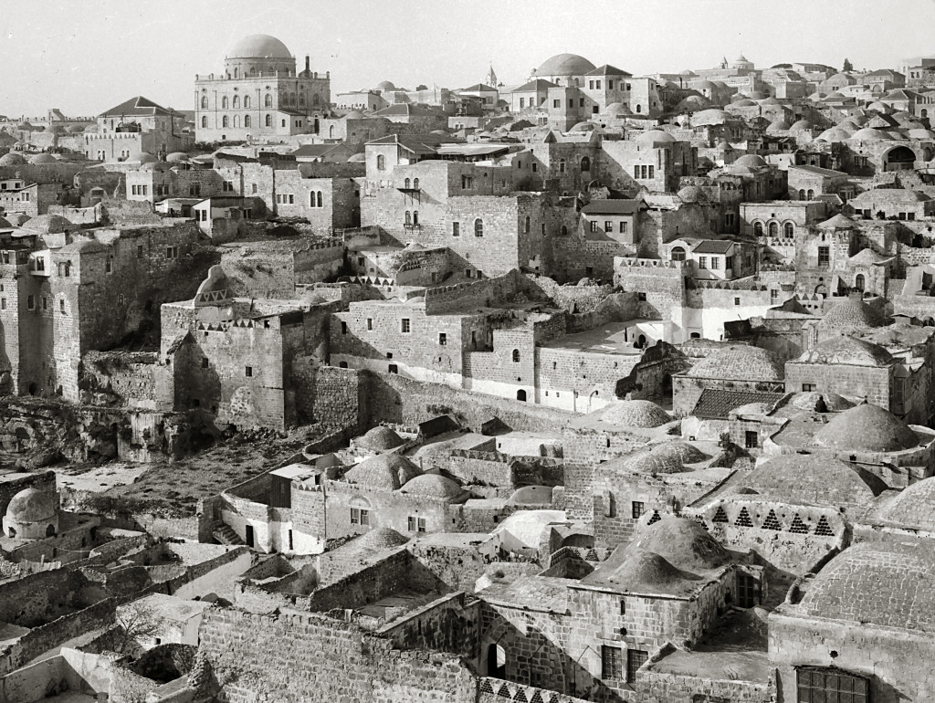 The Jewish Quarter of the Old City of Jerusalem